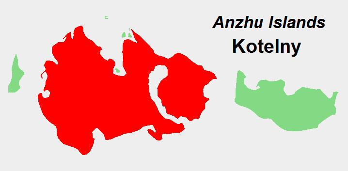 Location map